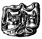 Chewing surface of the molar of a horse.